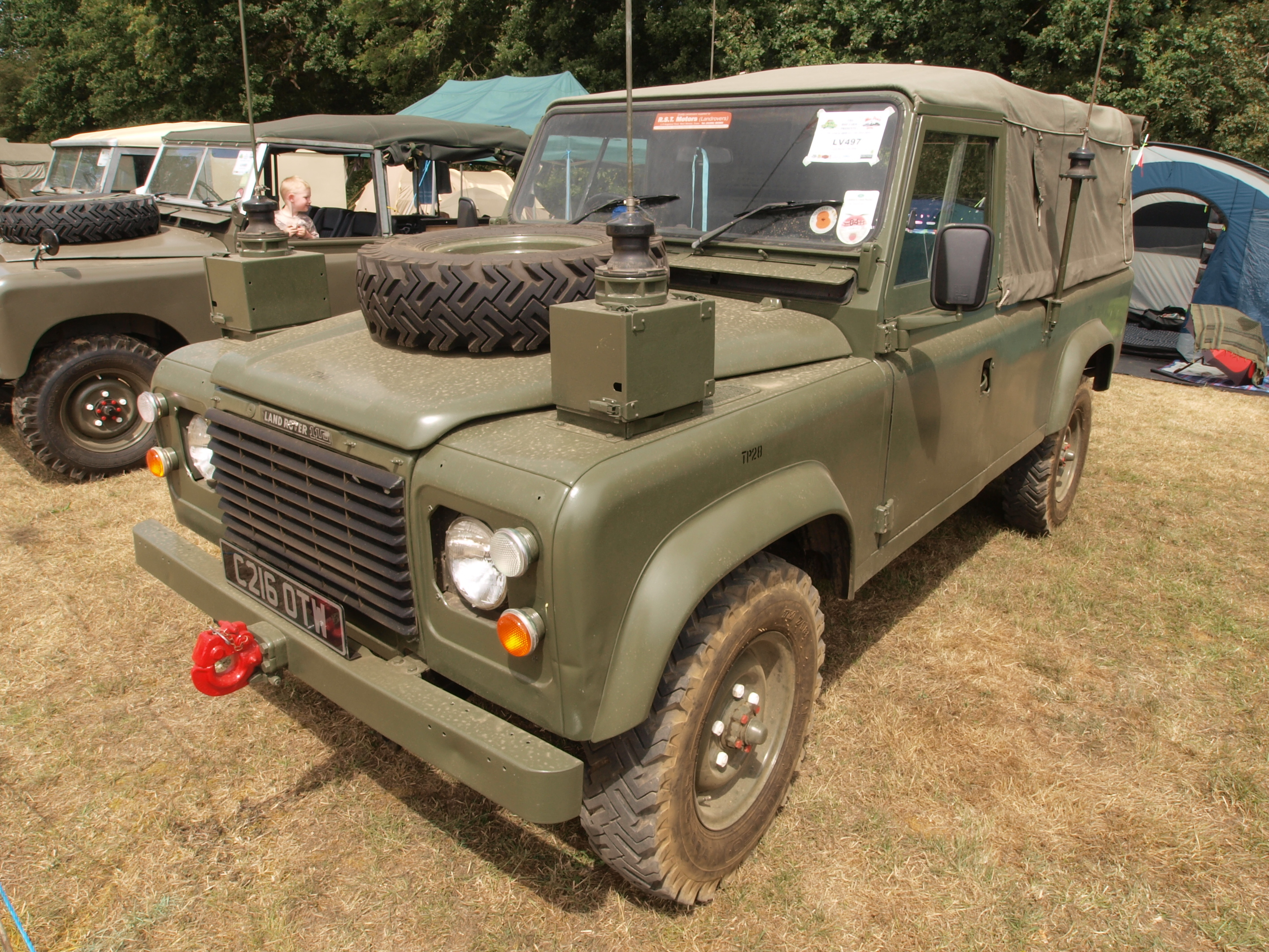 Land Rover 110 FFR (1986) owned by David Jimson.